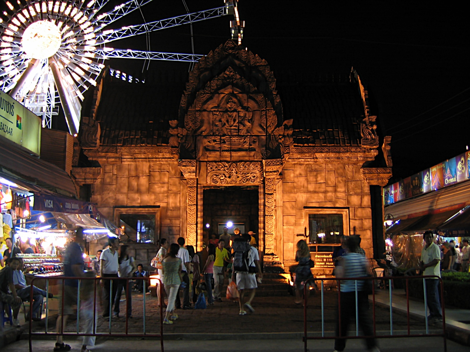 Information office in Suan Lum Night Bazaar, Bangkok